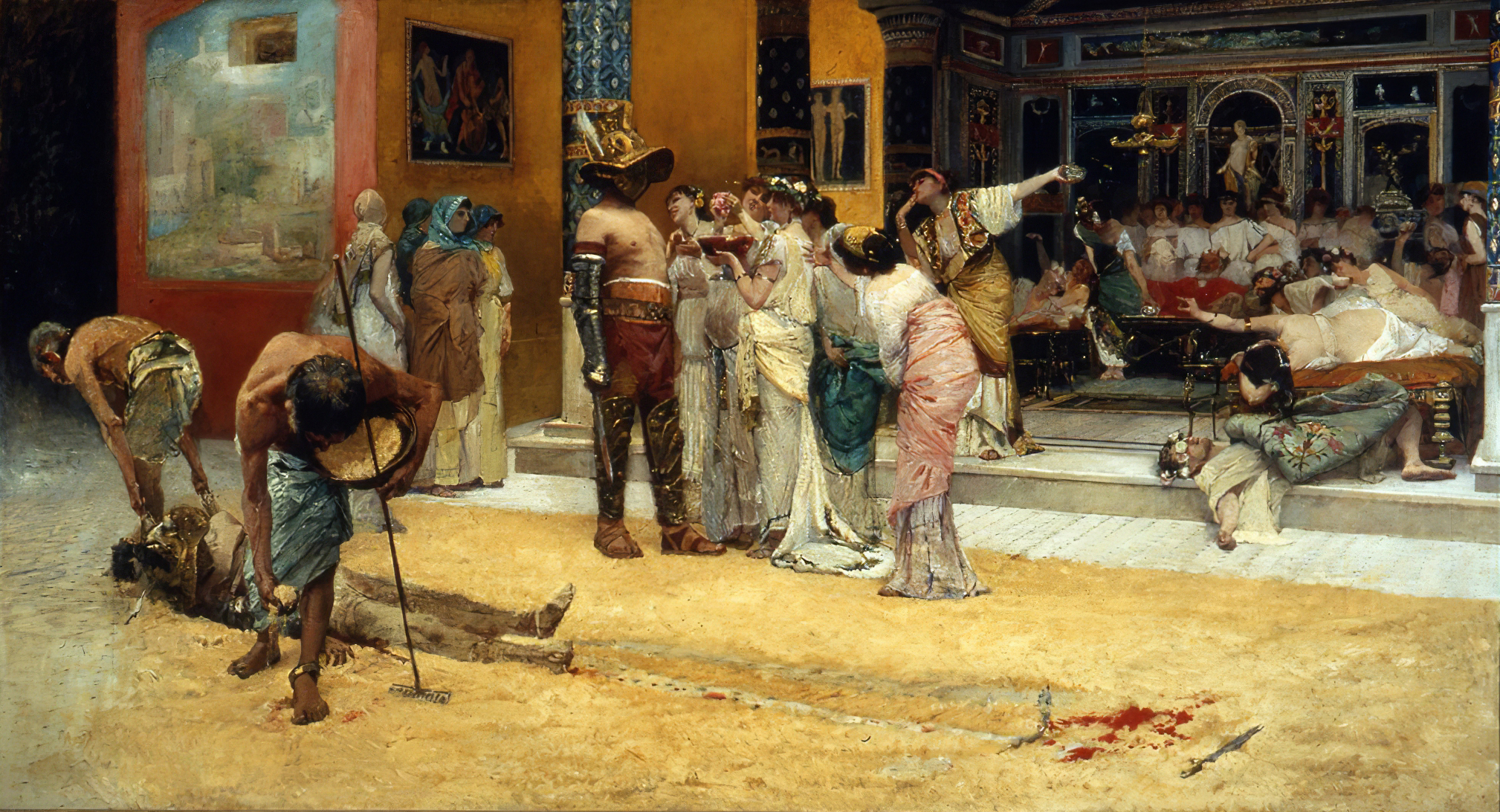 Gladiator Fight During Meal At Pompeii by Francesco Netti 1880